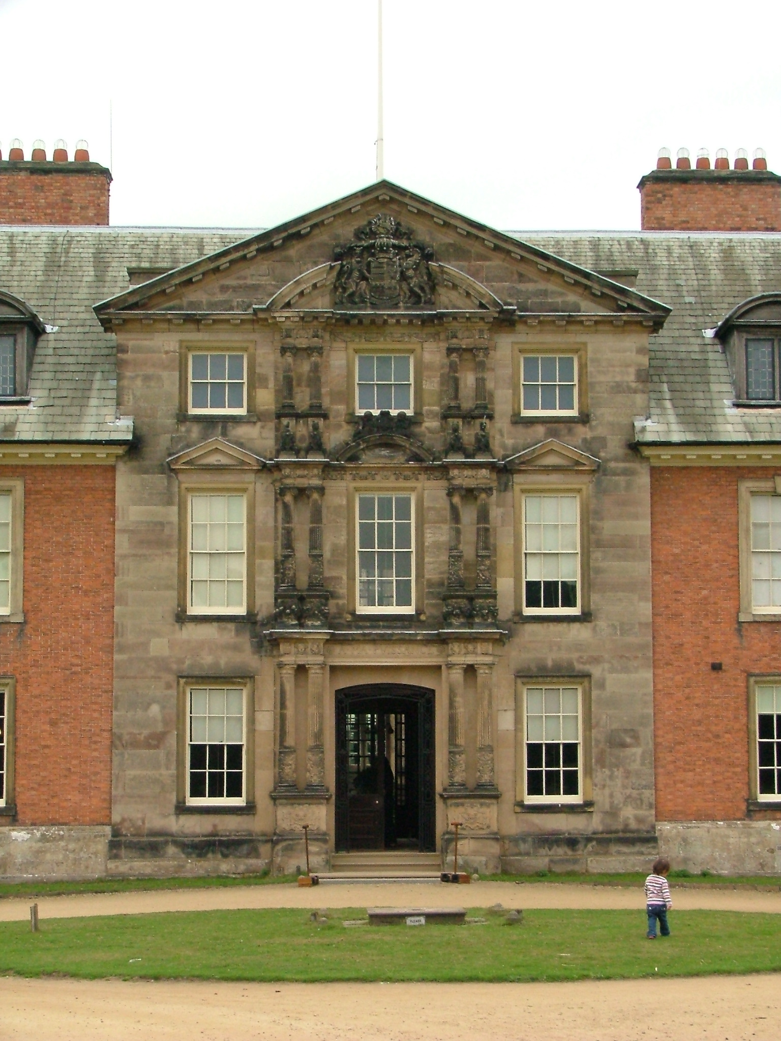 Dunham Massey Hall - Main Entrance